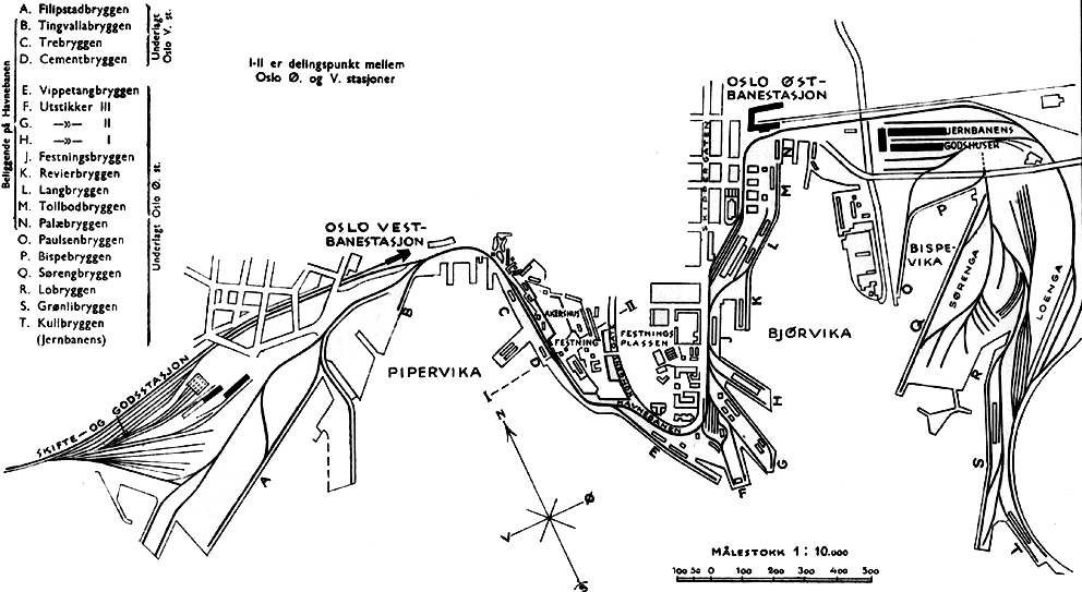 Map of the port of Oslo, 1936.